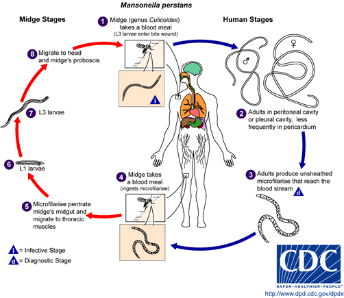 From CDC website.